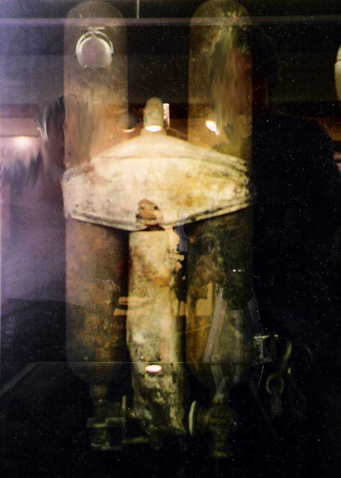 A memory smoke diving device in a fire museum